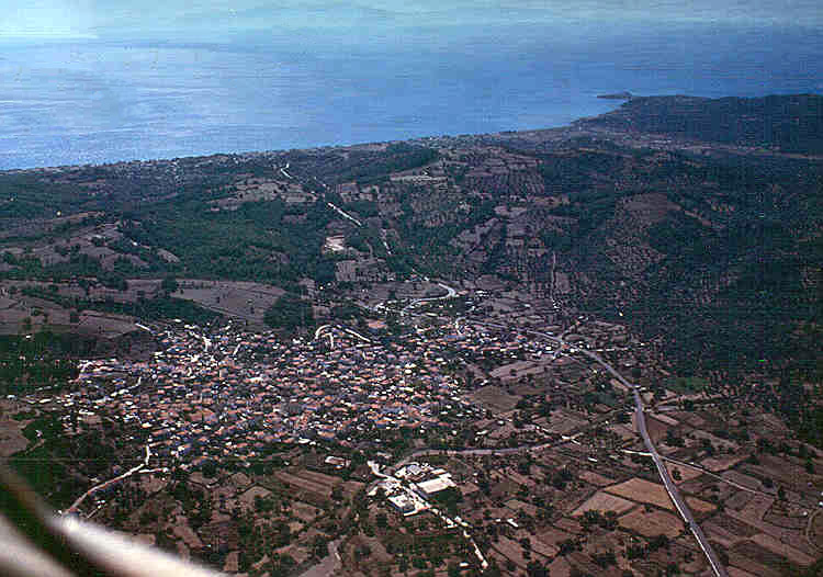 A 1998 aerial picture of Vrissa village taken by me. Costis STEFANOU